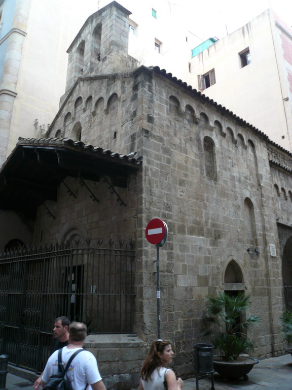 Marcús Chapel, Barcelona